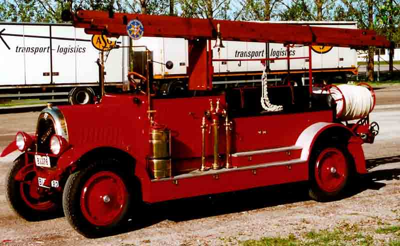 Tidaholm Fire Engine 1929